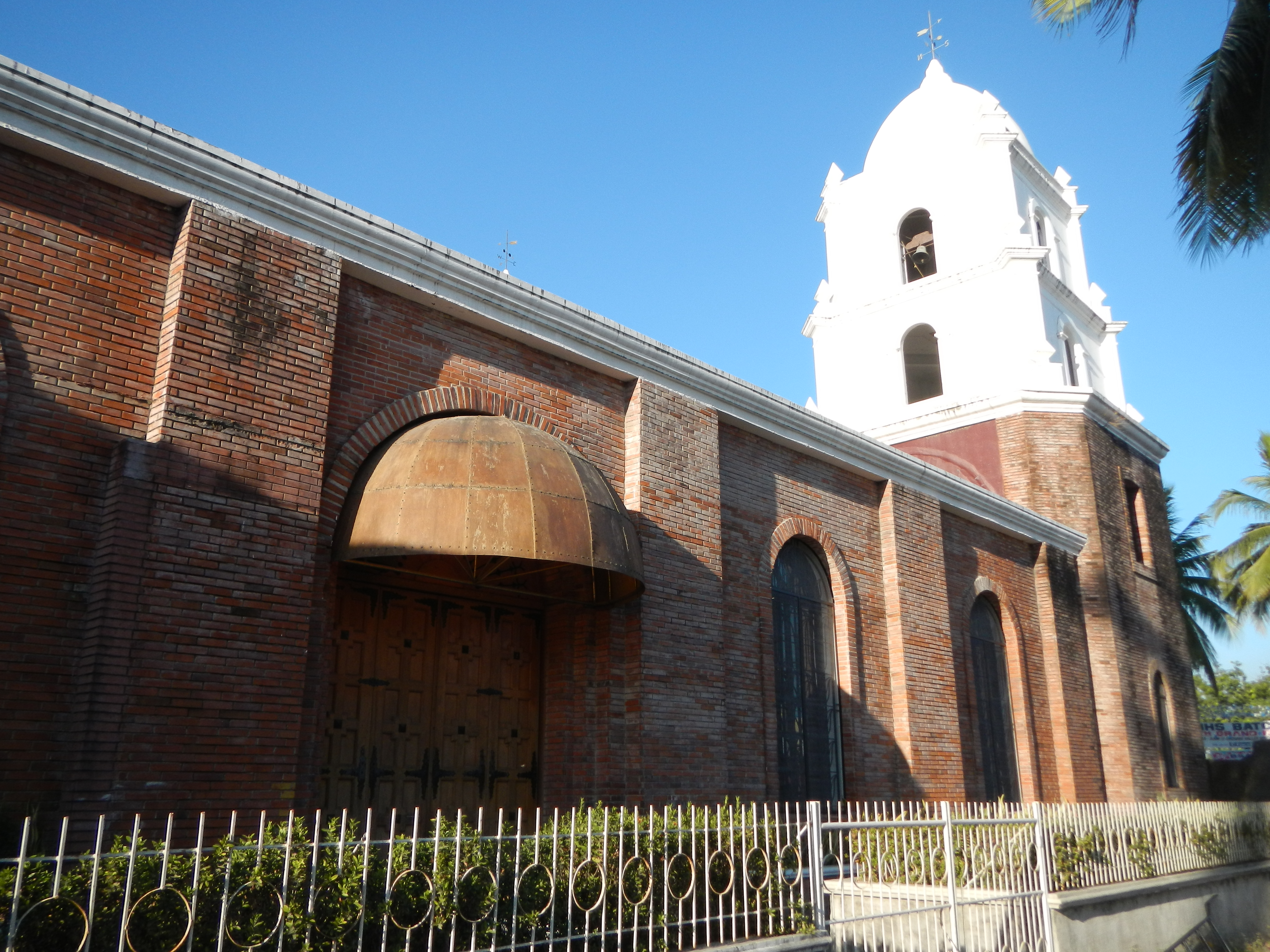 1863 Santuario de la Immaculada Concepción [1]Formerly Immaculate Conception Parish Church, it was renovated from 2005 till 2007. Nearby cities: San Fernando City, Pampanga, Mabalacat City, Pampanga, Tarlac City Coordinates: 15°19'26"N 120°39'15"E[2]The Roman Catholic Diocese of Tarlac (Latin: Dioecesis Tarlacensis) is a diocese of the Latin Rite of the Roman Catholic Church in the Philippines. Erected in 1963, the diocese was created from territory in both the Diocese of San Fernando, and the Diocese of Lingayen-Dagupan. The diocese is a suffragan of the Archdiocese of San Fernando. The current bishop is Florentino Ferrer Cinense, appointed in 1988.[3][4] Vicariate of the Immaculate Conception (Concepcion, Tarlac) Vicar Forane: Msgr. Tirso Daquigan Immaculate Conception Parish (F-1863) Concepcion 2316 Tarlac, Philippines Titular: Immaculate Conception, December 8 Parish Priest: Msgr. Tirso A. Daquigan[5][6][7][8] Fr. Melvin P. Castro, Chancellor